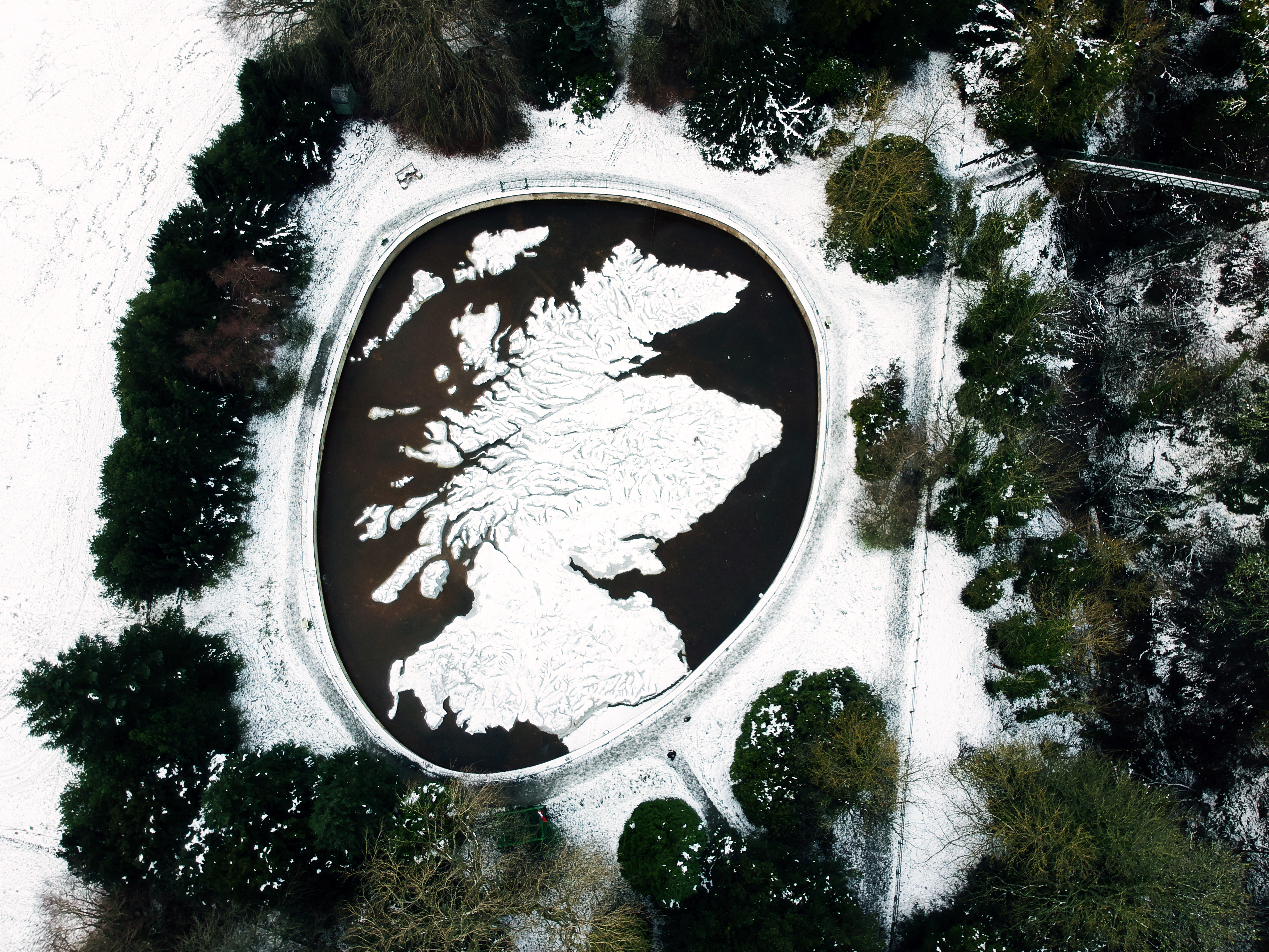 Snow-Capped Scotland